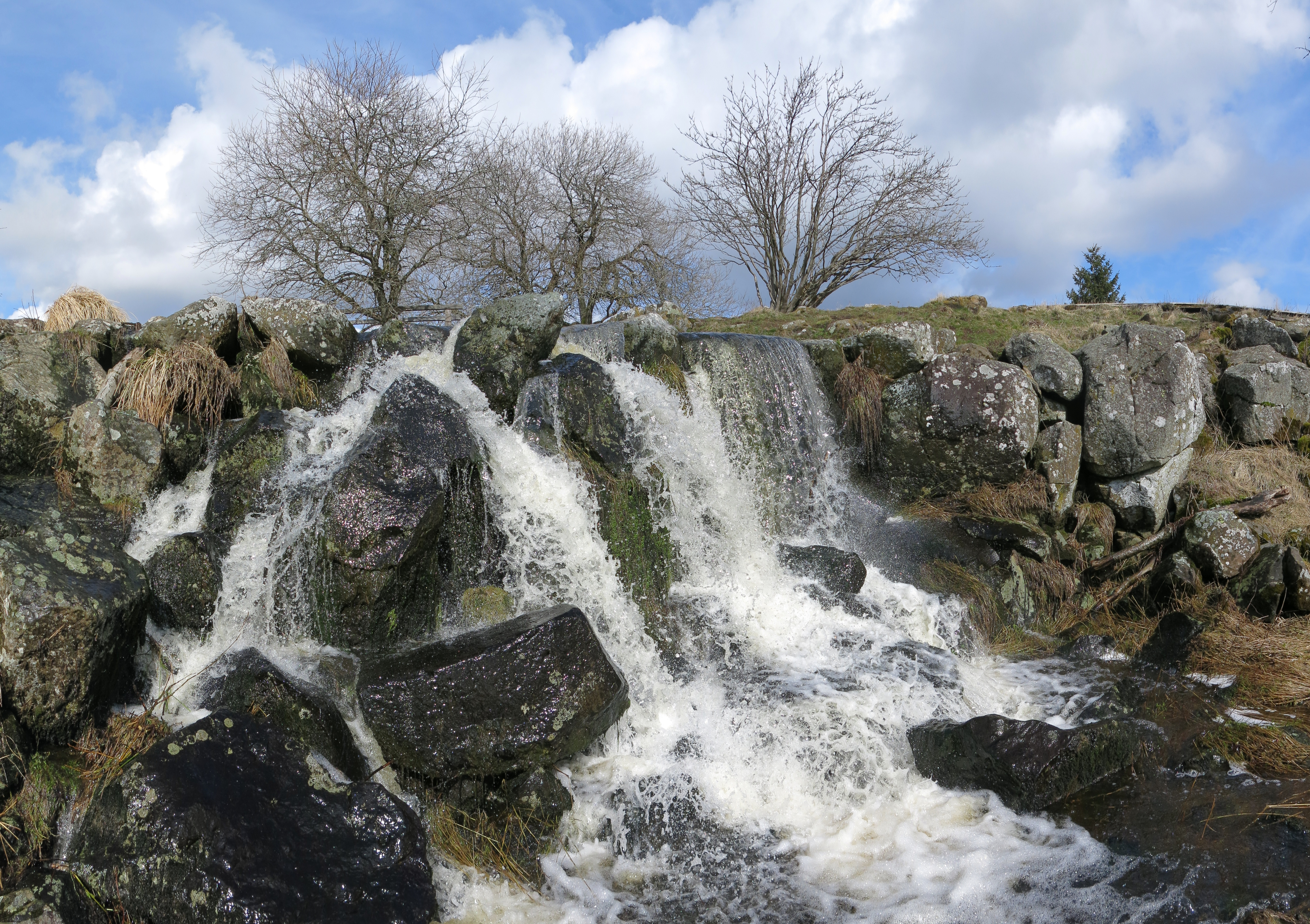 Waterfall at Eisgraben in a nature reserve of the Rhön Mountains